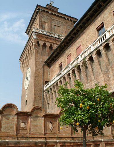 Este Castle ef Ferrara, Garden of the Orange Blossoms